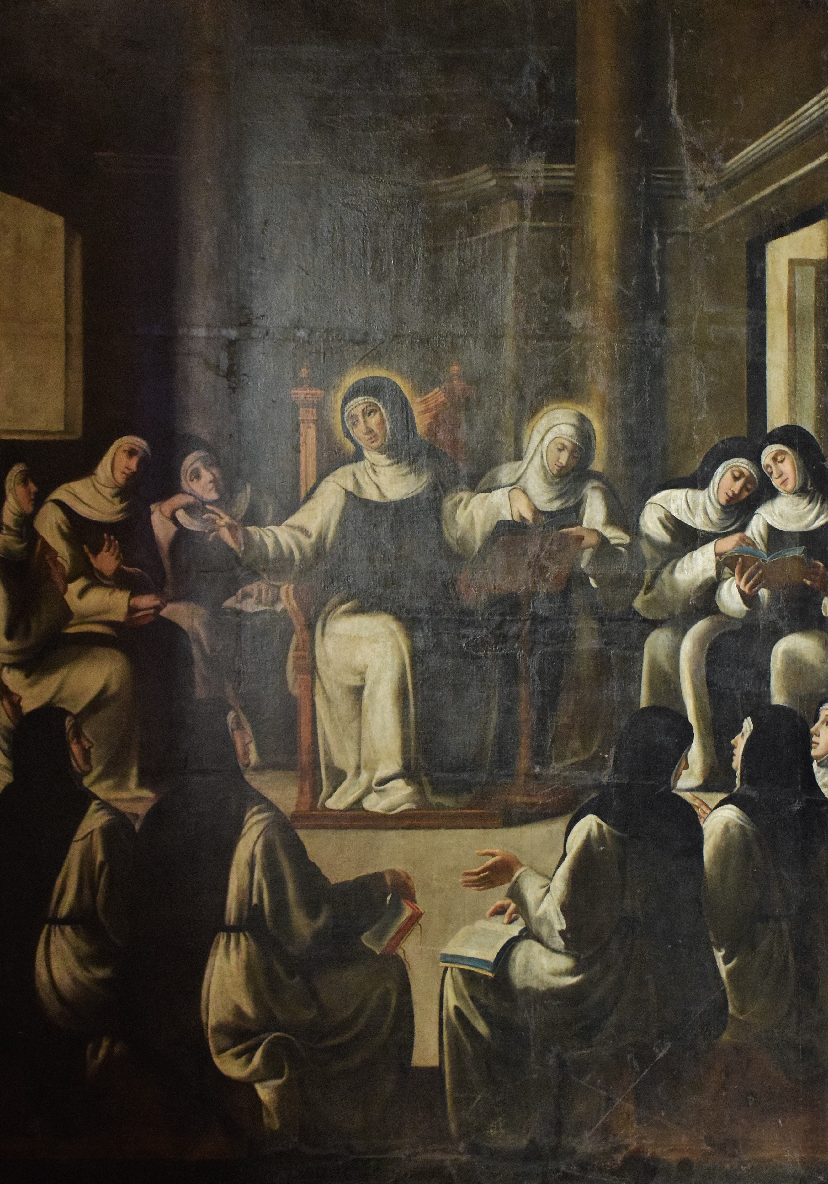 Saint Paula Teaching her Nuns, mid-17th century, by André Reinoso. Currently in the Monastery of the Hieronymites (Mosteiro dos Jerónimos), in Lisbon, Portugal.